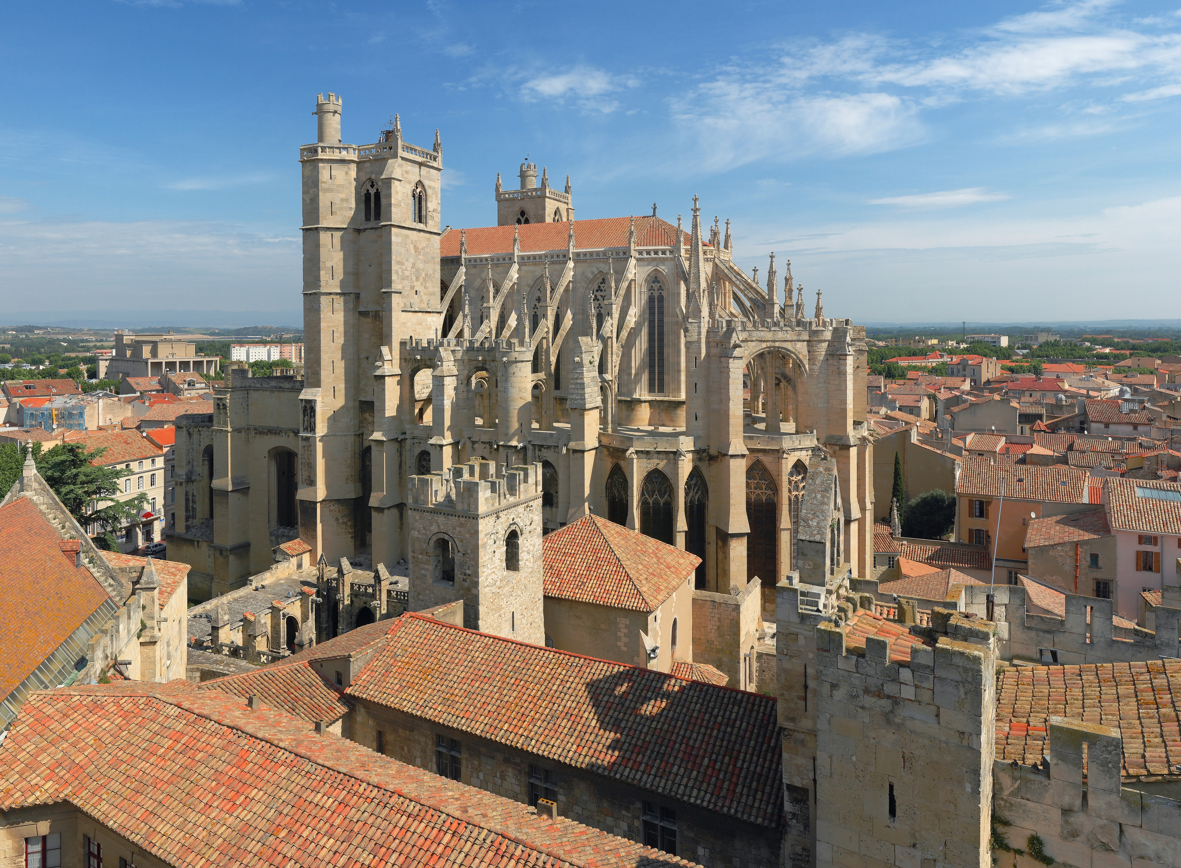 Saint-Just and Saint-Pasteur Cathedral, in Narbonne, south of France, seen from the Gilles Aycelin dungeon. This picture is a mosaic of 9 pictures (3x3), taken at 31mm on a 1.6 crop body, (50mm équiv.), f/8.0, 1/640s and ISO 100. Stitching was done with Hugin and Enblend. Resulting horizontal FOV is 90°.